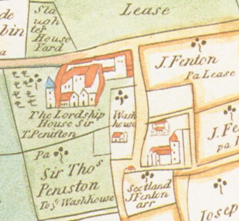 detail of the 1619 map of the Parish of Tottenham, Middlesex (now in the London Borough of Haringey)